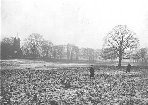 This photo taken in the early 1890s is of a view north east towards St.Mary's Church, Handsworth showing the grazing around the church before Handsworth Park Pond was excavated. The photo -or a copy of it - came into my possession while I was researching the history of the park in the 1990s.Sibadd 23:27, 1 April 2006 (UTC)